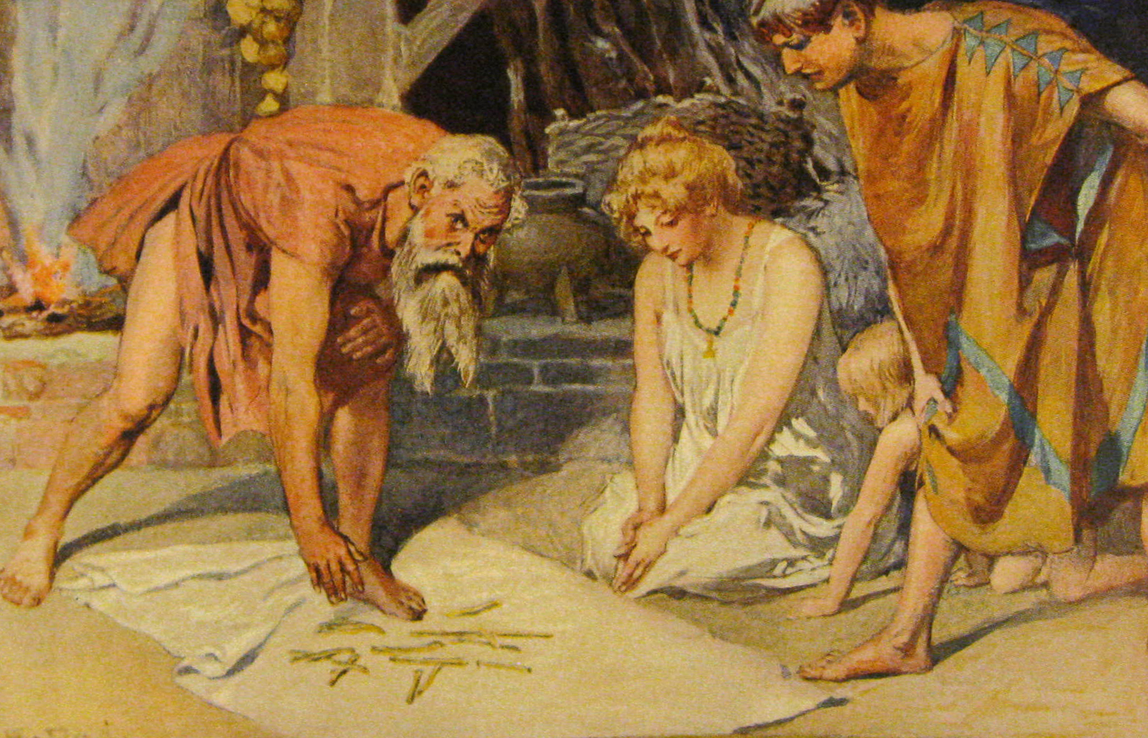 A man stares towards the viewer as he bends over and casts lots for purposes of divination. A woman, child, and man watch for his predictions. The image is captioned as "Losungen".